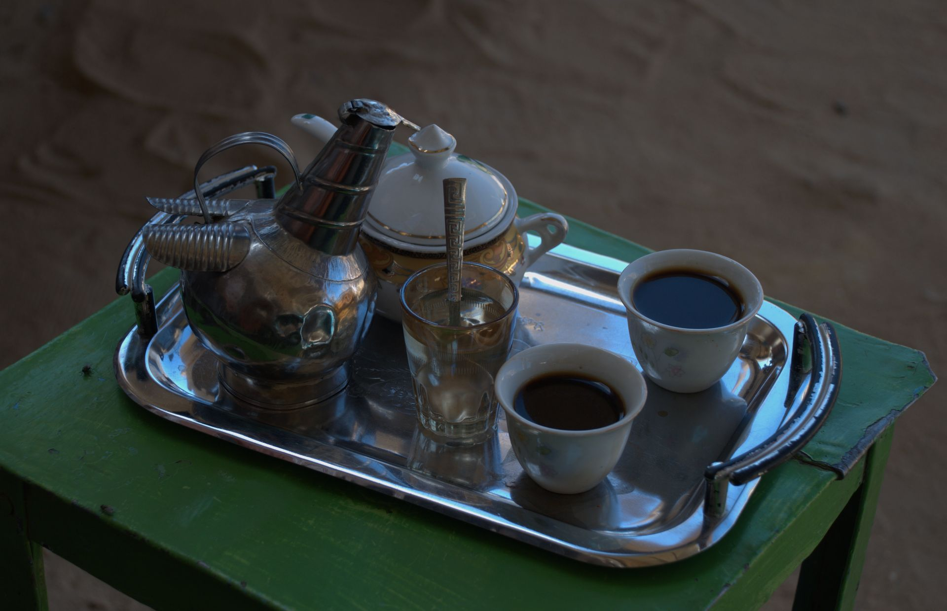 Jabana, plate with coffee pot, Sudan